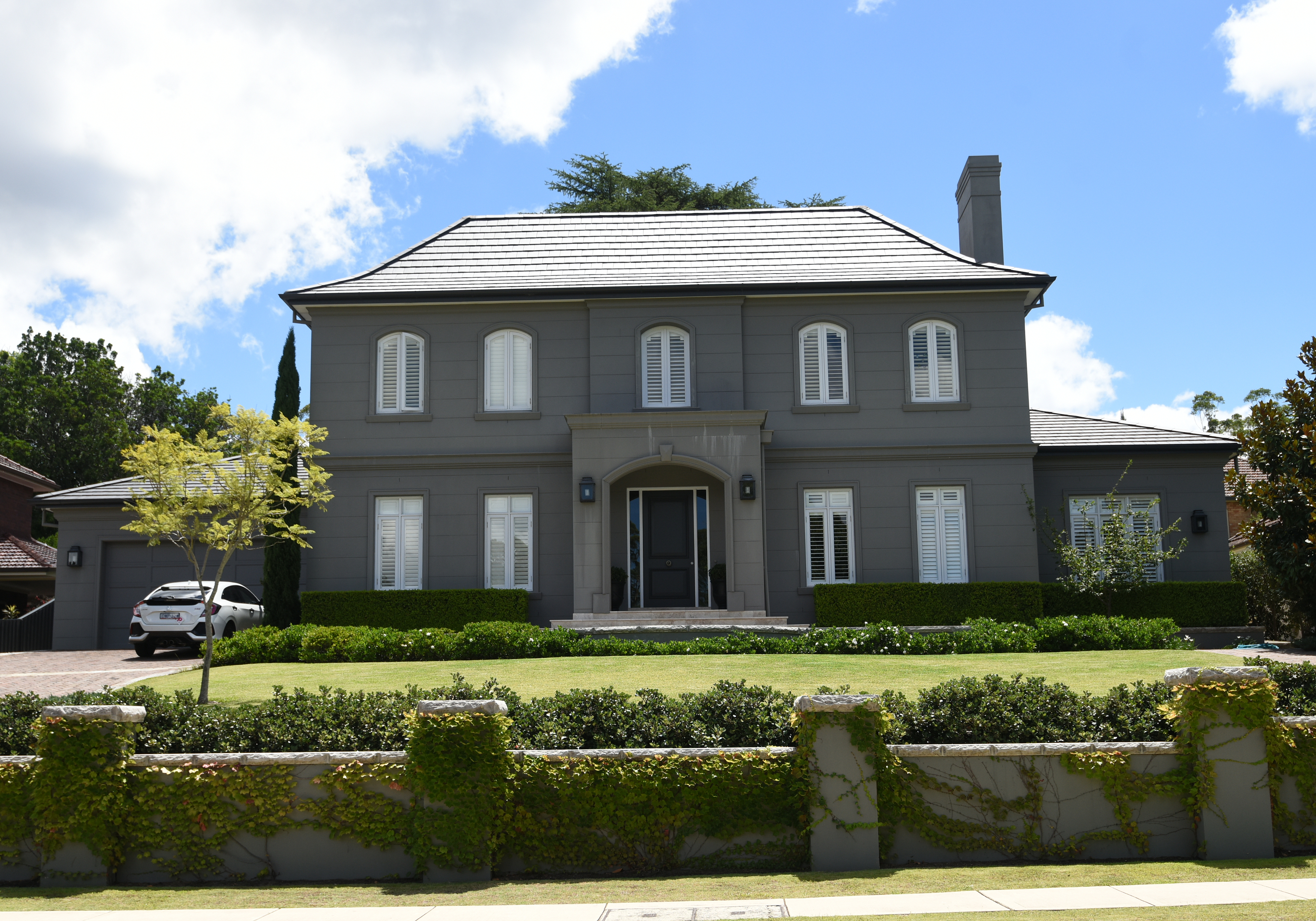 Mini-mansion with Regency influence, Cheltenham, Sydney